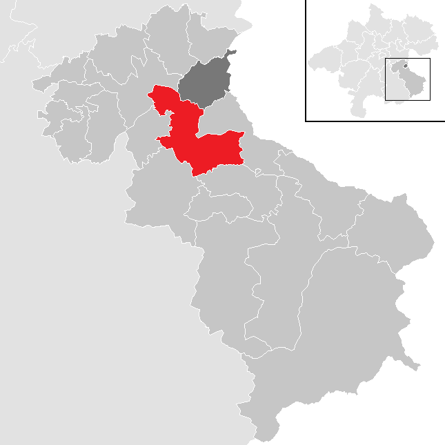 district Steyr-Land